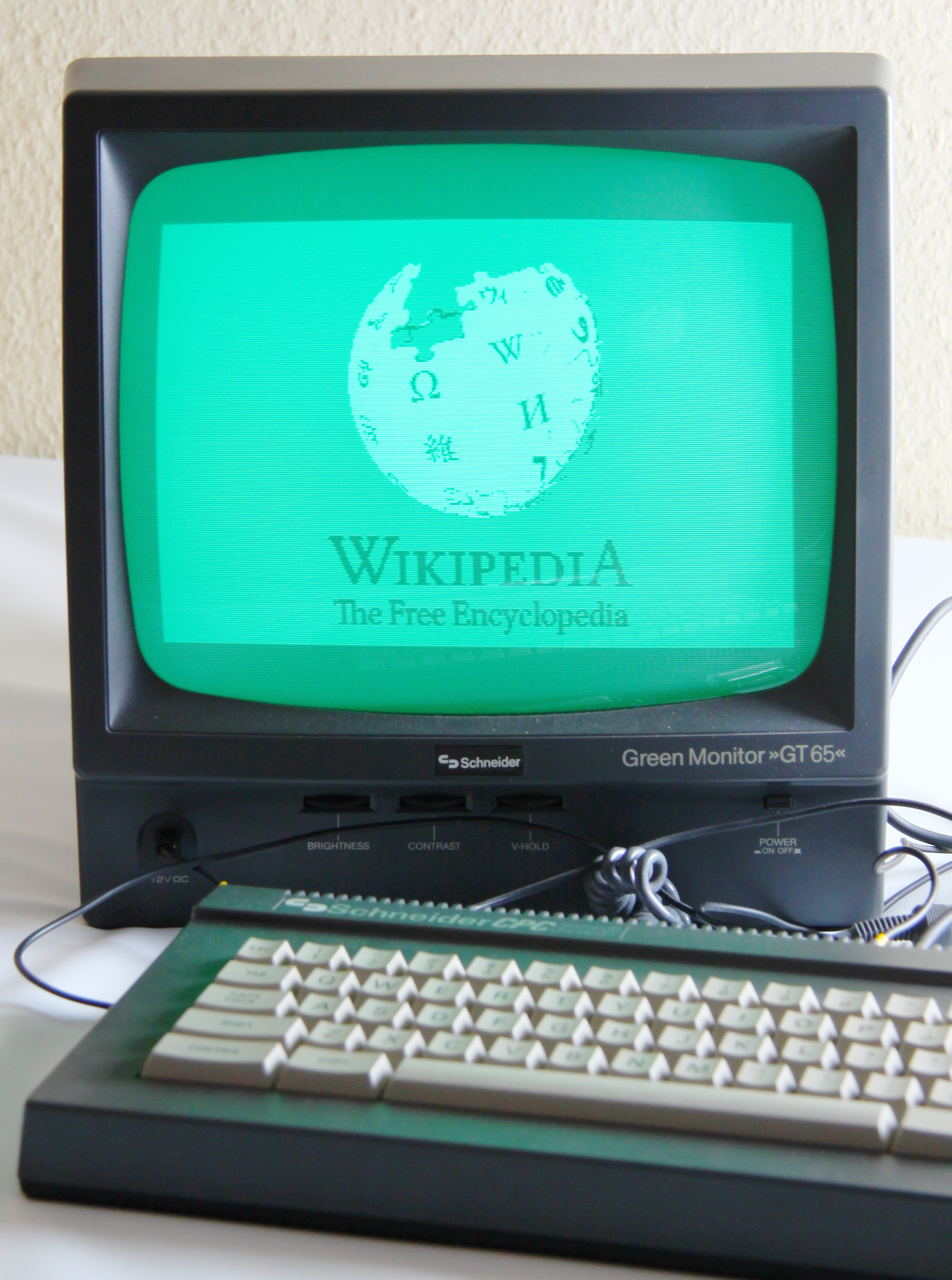 Schneider CPC6128 with green monitor GT65, with Wikipedia logo on screen (mode 1 picture, 4 colors). A CPC DSK image with the WP mode 1 logo can be downloaded here: [1]